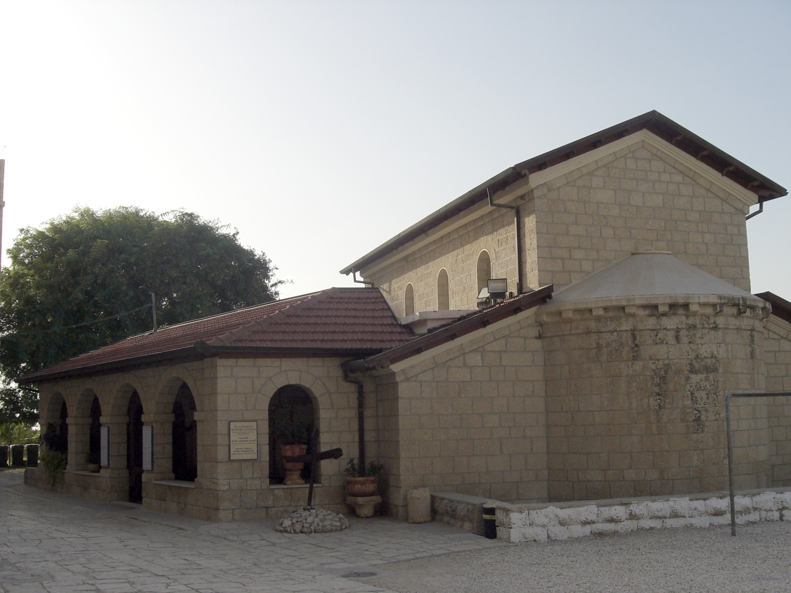 The St. Stephen Church at the Bet Gemal monastery in Israel